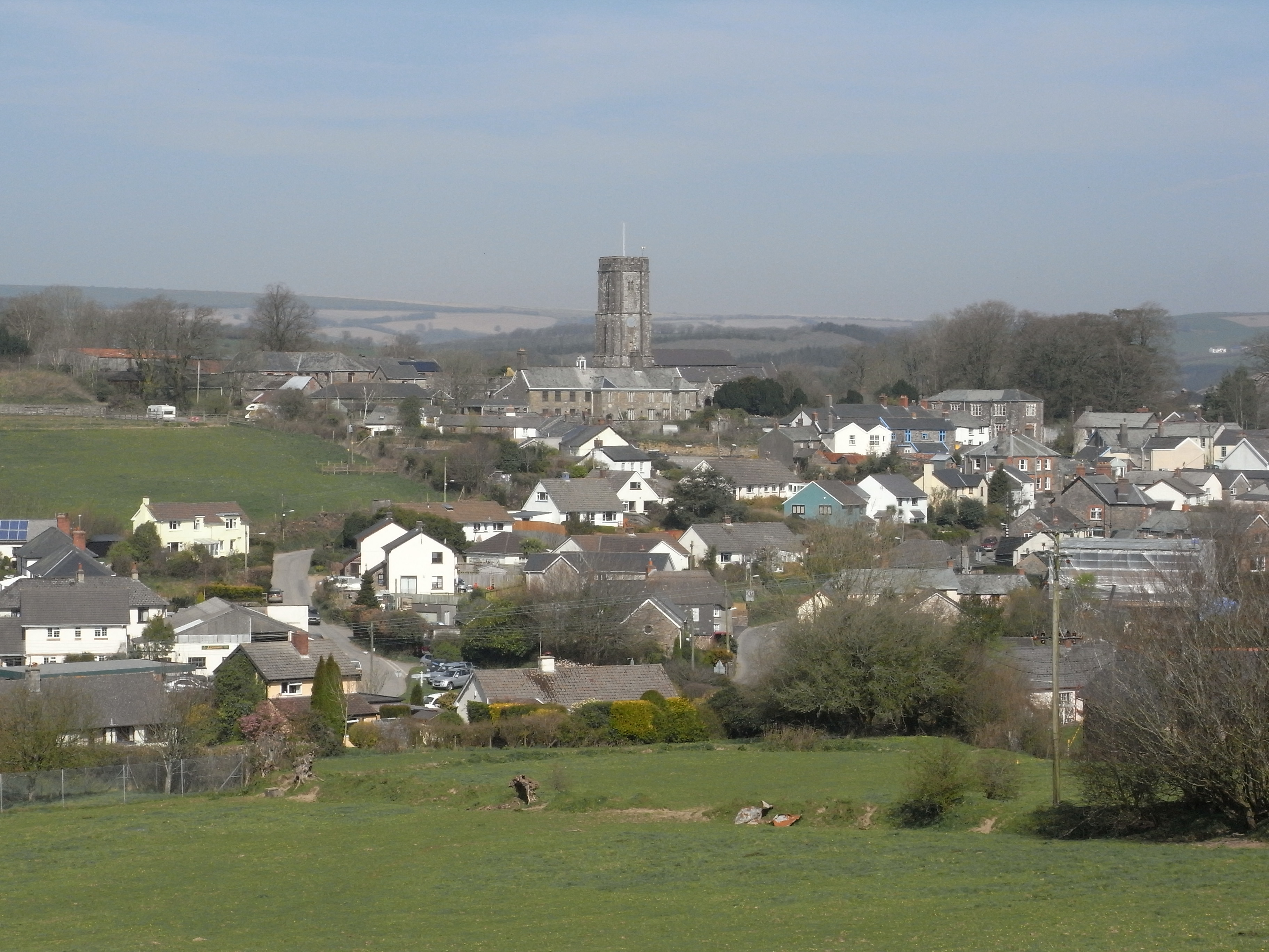 North Molton viewed from SW. Directly in front of the church is Court House